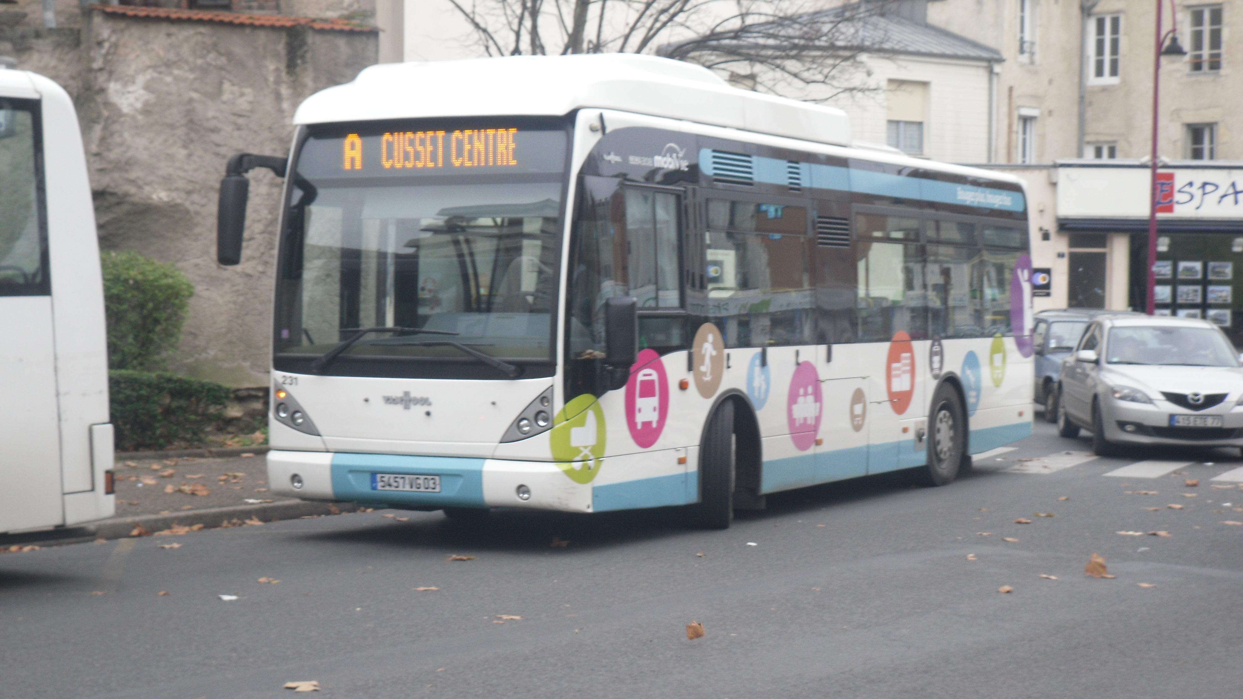 VanHool New A308 to bus stop "Cusset Centre" posted on line A.